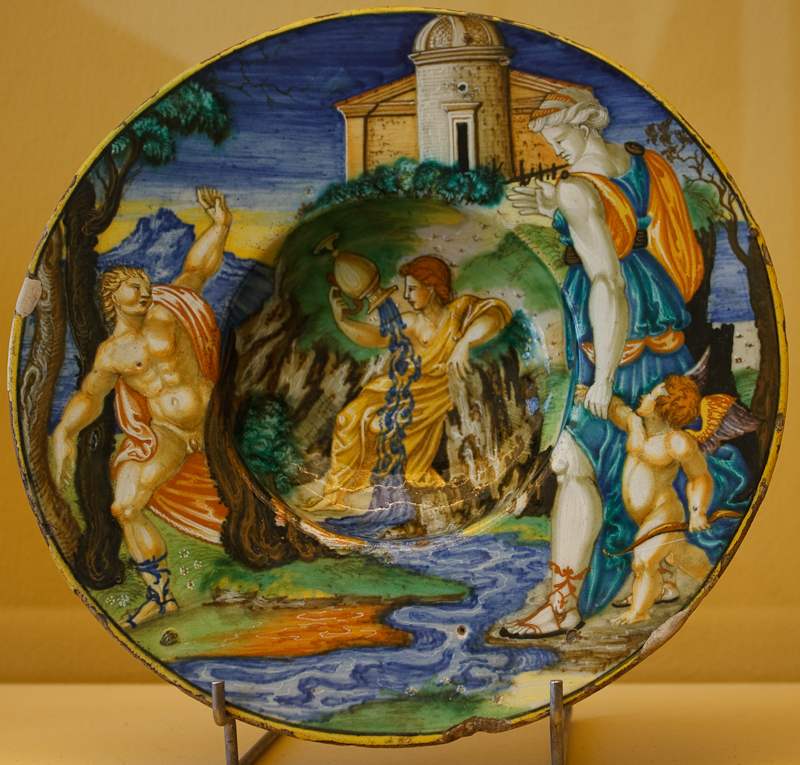 Dish with the story of Echo, Amor and Narcissus. From the Istoriato series.